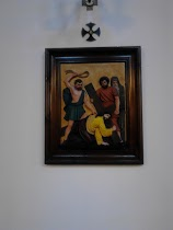 Station of the cross in St Pancras Church. Position to be ascertained.